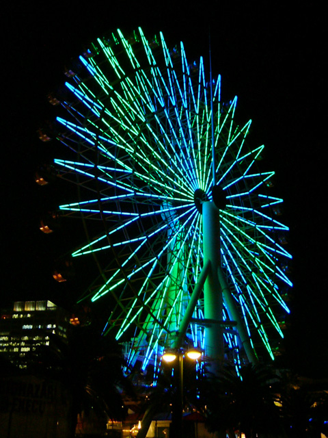 The Wonder wheel at Kobe Harbourland